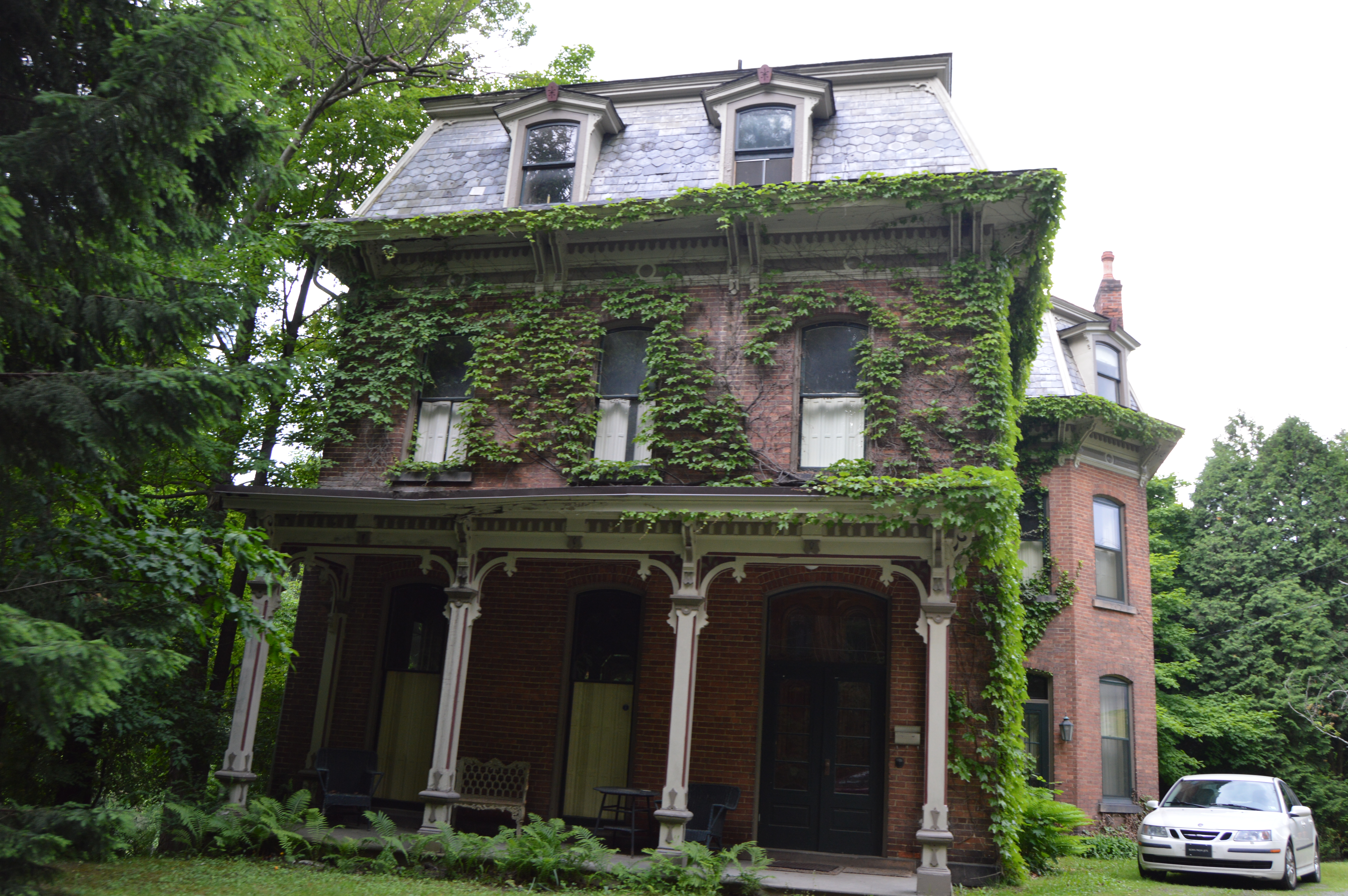 Front of the Gray-Taylor House, located at 9 Walnut Street in Brookville, Pennsylvania, United States. Built in 1882, it is listed on the National Register of Historic Places, and it is part of a Register-listed historic district, the Brookville Historic District.